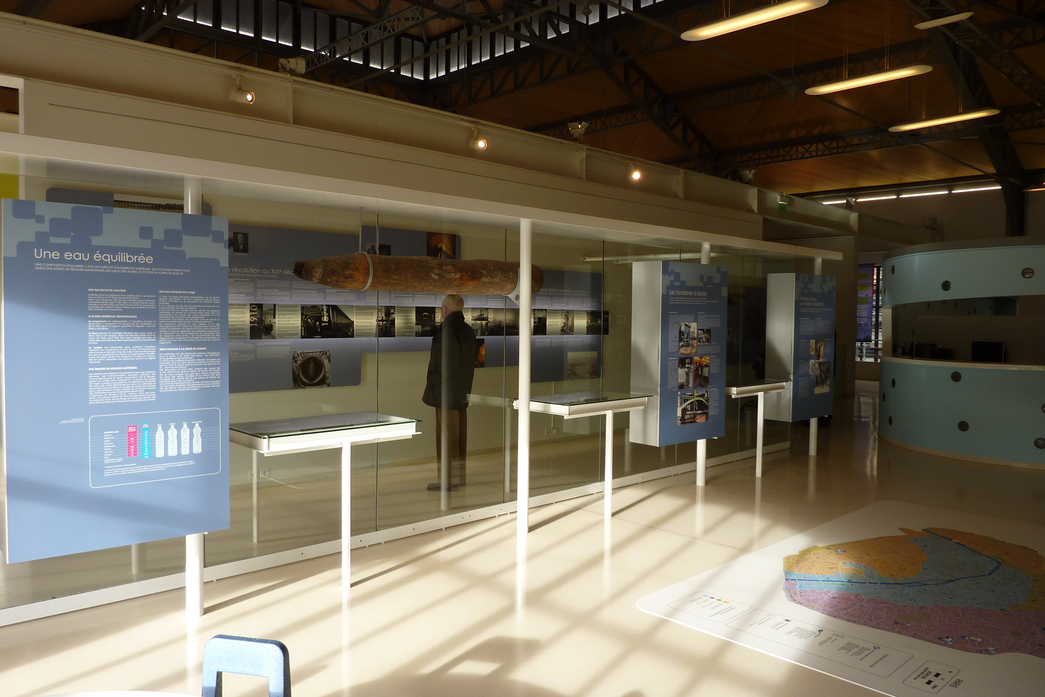 Exposition permanente au Pavillon de l'eau